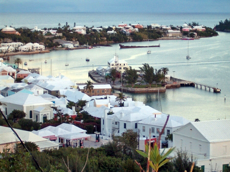 The harbourfront of the Town of Saint George (1612), in Bermuda. Ordnance Island is at the centre of the photograph.